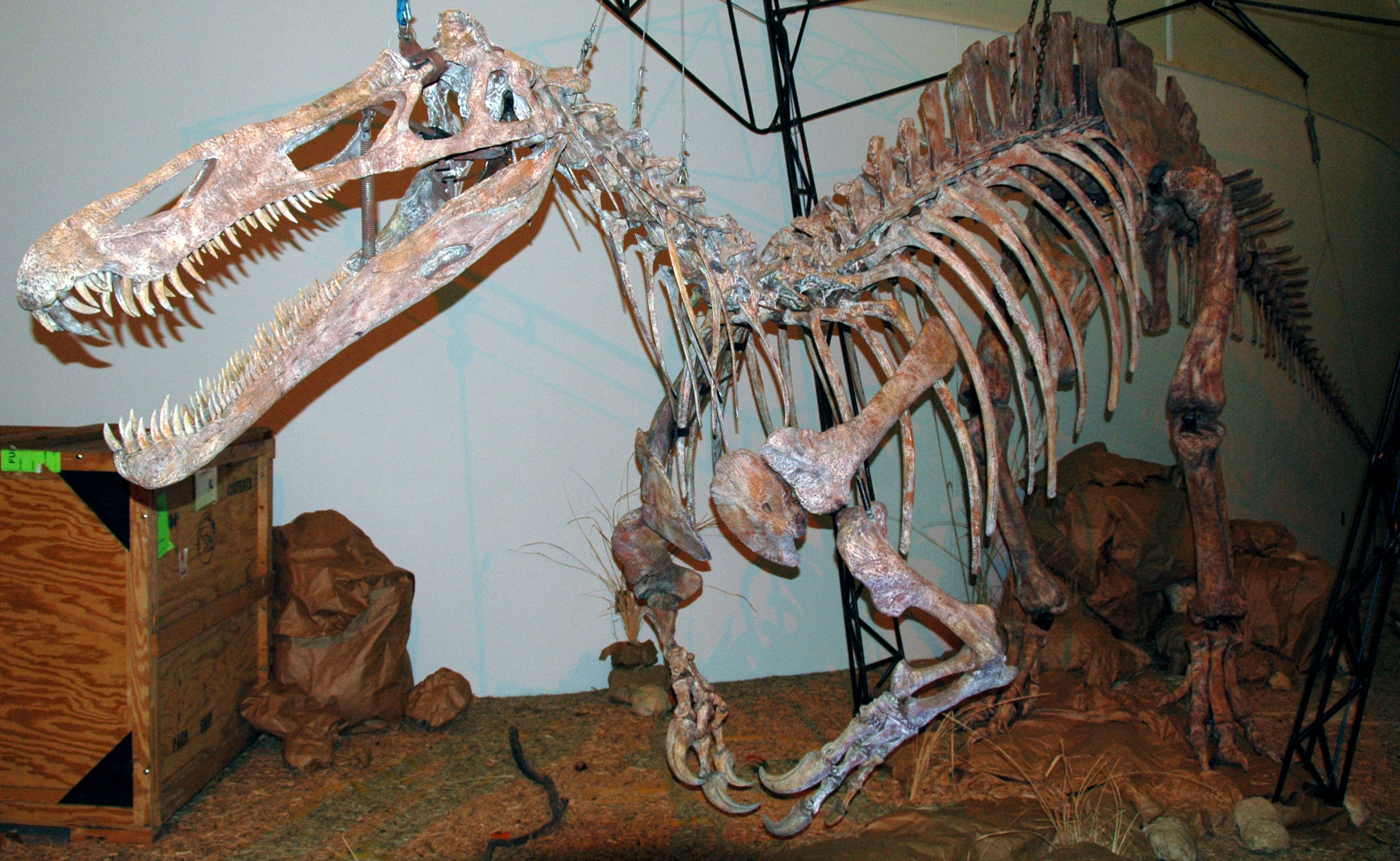 Suchomimus tenerensis Sereno et al., 1998 theropod dinosaur from the Cretaceous of Niger, Africa (temporary public display, Sternberg Museum of Natural History, Hays, Kansas, USA). Suchomimus was a predatory dinosaur that had a somewhat crocodilian-like, elongated skull (~1.2 metres long in this reconstruction), with sharp, posteriorly-directed, sometimes overlapping, teeth. Its fossils are found in fluvial sandstones, so during life, it likely frequented riverine environments. Its diet has been interpreted as including fish and other dinosaurs. This 11 metres long, 4-5 tonne animal had powerful, clawed arms with an enlarged thumb claw and a vertebral column with elongated neural spines that formed a low sail. Classification: Animalia, Chordata, Vertebrata, Dinosauria, Theropoda, Spinosauridae Stratigraphy: fluvial sandstones, Elrhaz Formation, Tegama Group, Aptian Stage, upper Lower Cretaceous Locality: Gadoufaoua, southwestern Tenere Desert, central Niger, northwest-central Africa Reference: Sereno, P.C., A.L. Beck, D.B. Dutheil, B. Gado, H.C.E. Larsson, G.H. Lyon, J.D. Marcot, O.W.M. Rauhut, R.W. Sadleir, C.A. Sidor, D.D. Varricchio, G.P. Wilson & J.A. Wilson. 1998. A long-snouted predatory dinosaur from Africa and the evolution of spinosaurids. Science 282: 1298-1302. Theropod were small to large, bipedal dinosaurs. Almost all known members of the group were carnivorous (predators and/or scavengers). They represent the ancestral group to the birds, and some theropods are known to have had feathers. Some of the most well known dinosaurs to the general public are theropods, such as Tyrannosaurus, Allosaurus, and Spinosaurus.